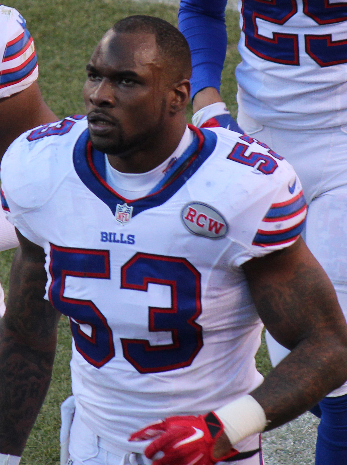 Nigel Bradham, a player on the National Football League.